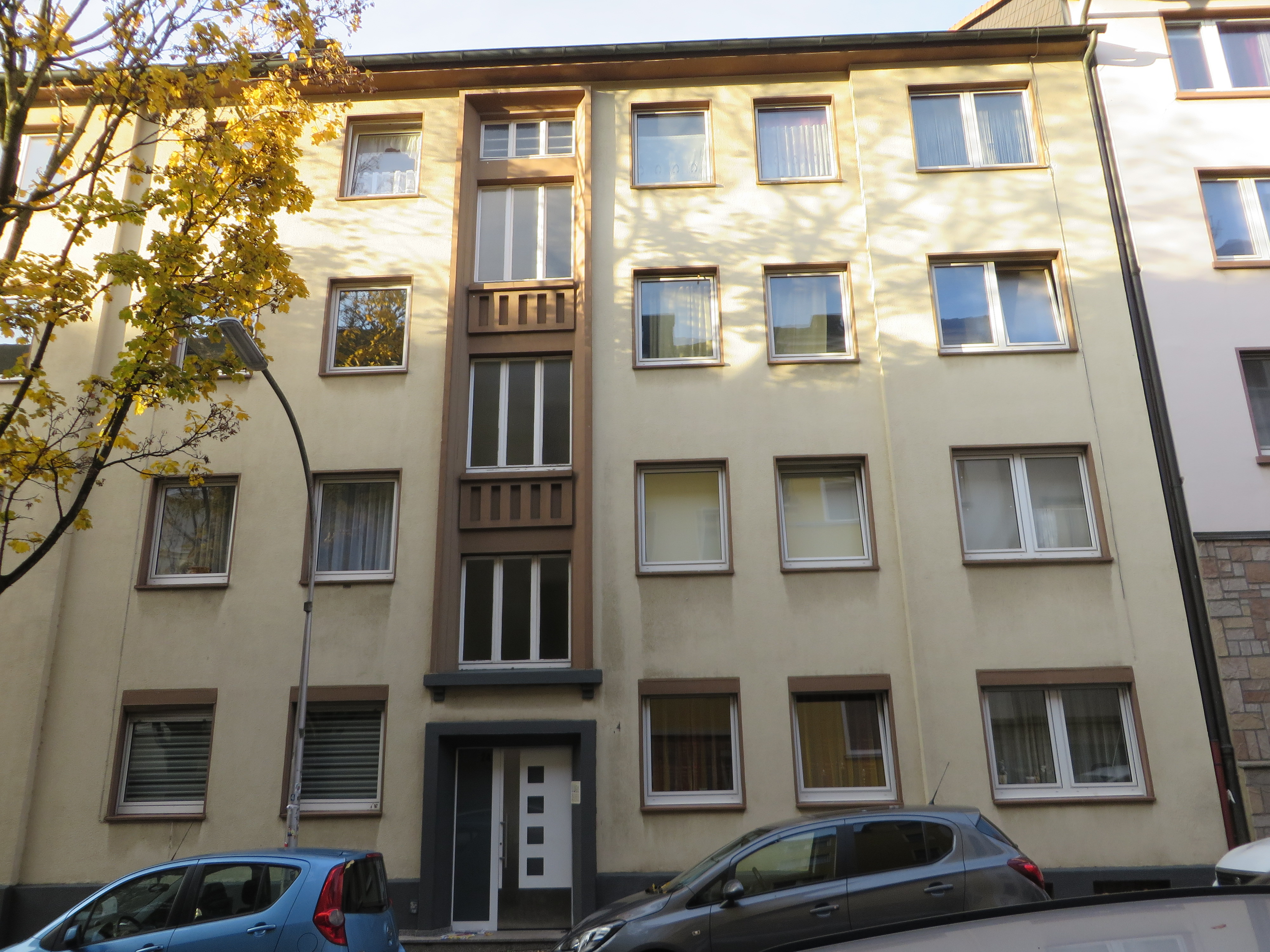 House Galenstraße 24 in Witten, Germany